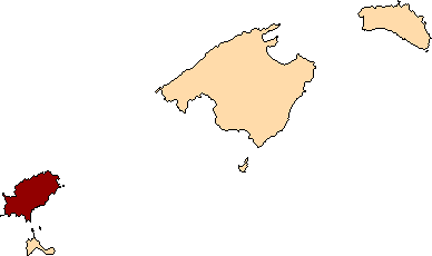 Location of Eivissa